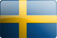 Flag of Sweden with volume